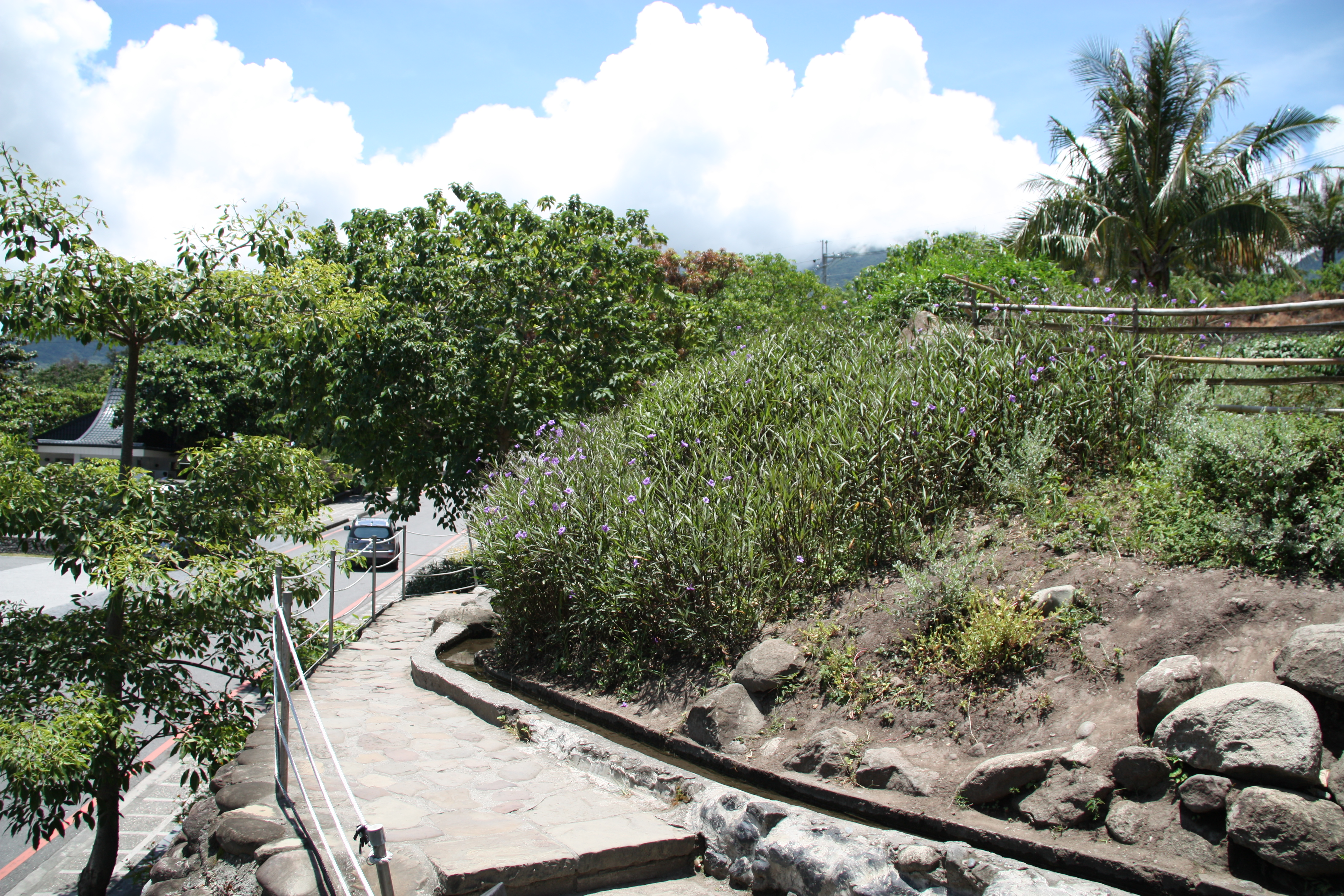 Taitung CountyDōngHé TownshipDōuLánWater Running up AreaRuellia simplexMap is out of date.Position and heading will be adapted, when actualized map is available.Lord Koxinga (talk) 12:26, 28 April 2013 (UTC)